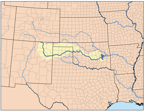 Map of the Canadian River watershed.